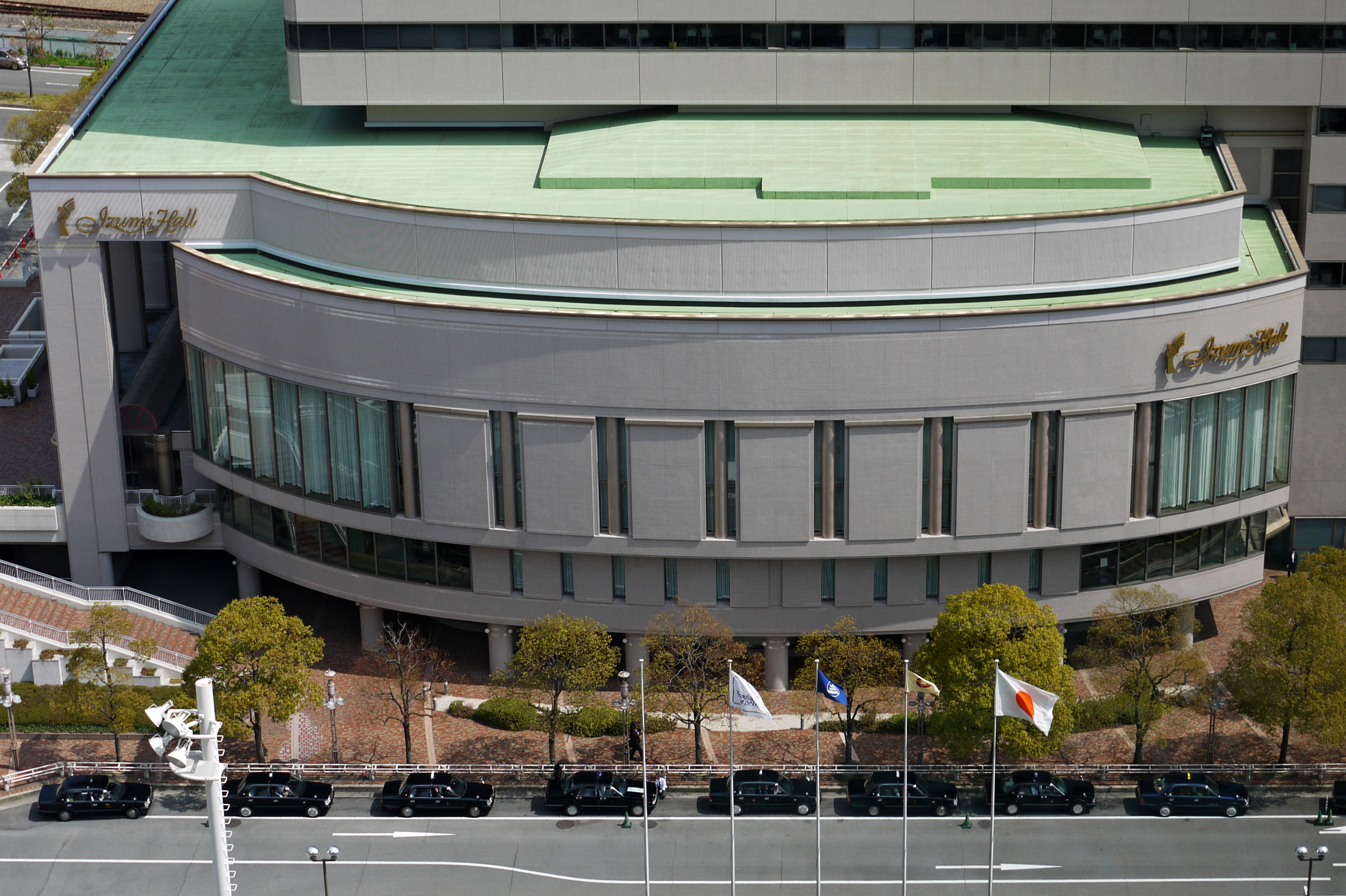 Izumi Hall in Osaka, Osaka prefecture, Japan